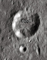 Hind lunar crater as seen from Earth with satellite craters labeled